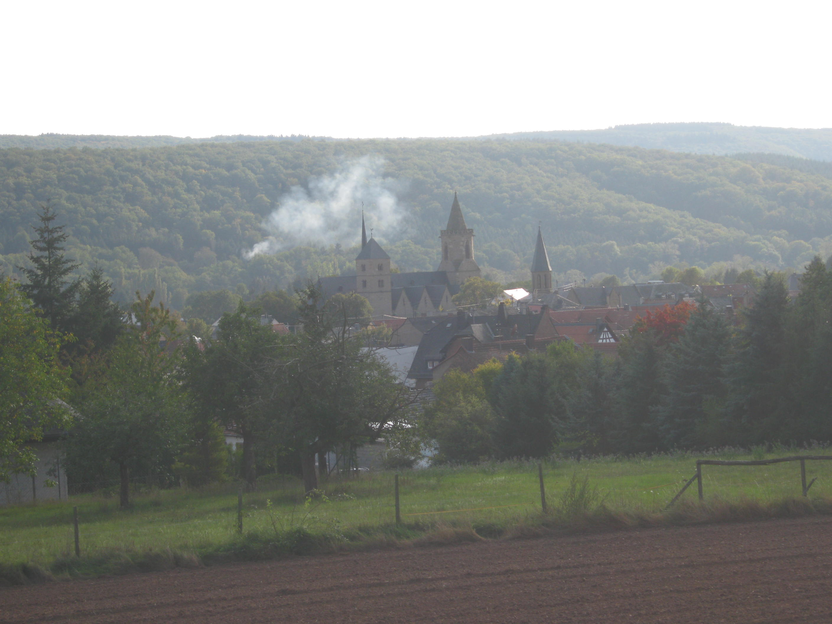 Bad Sobernheim fron north-east direction